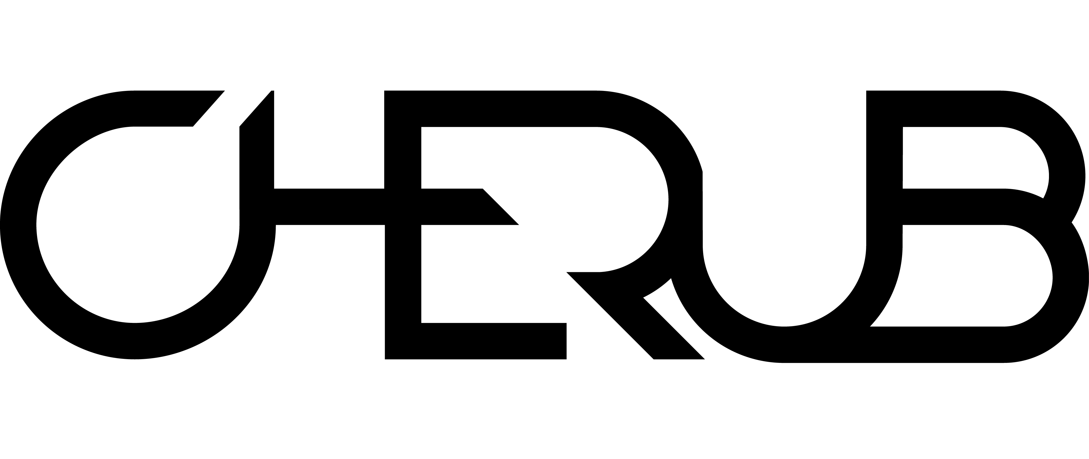 CHERUB's current logo